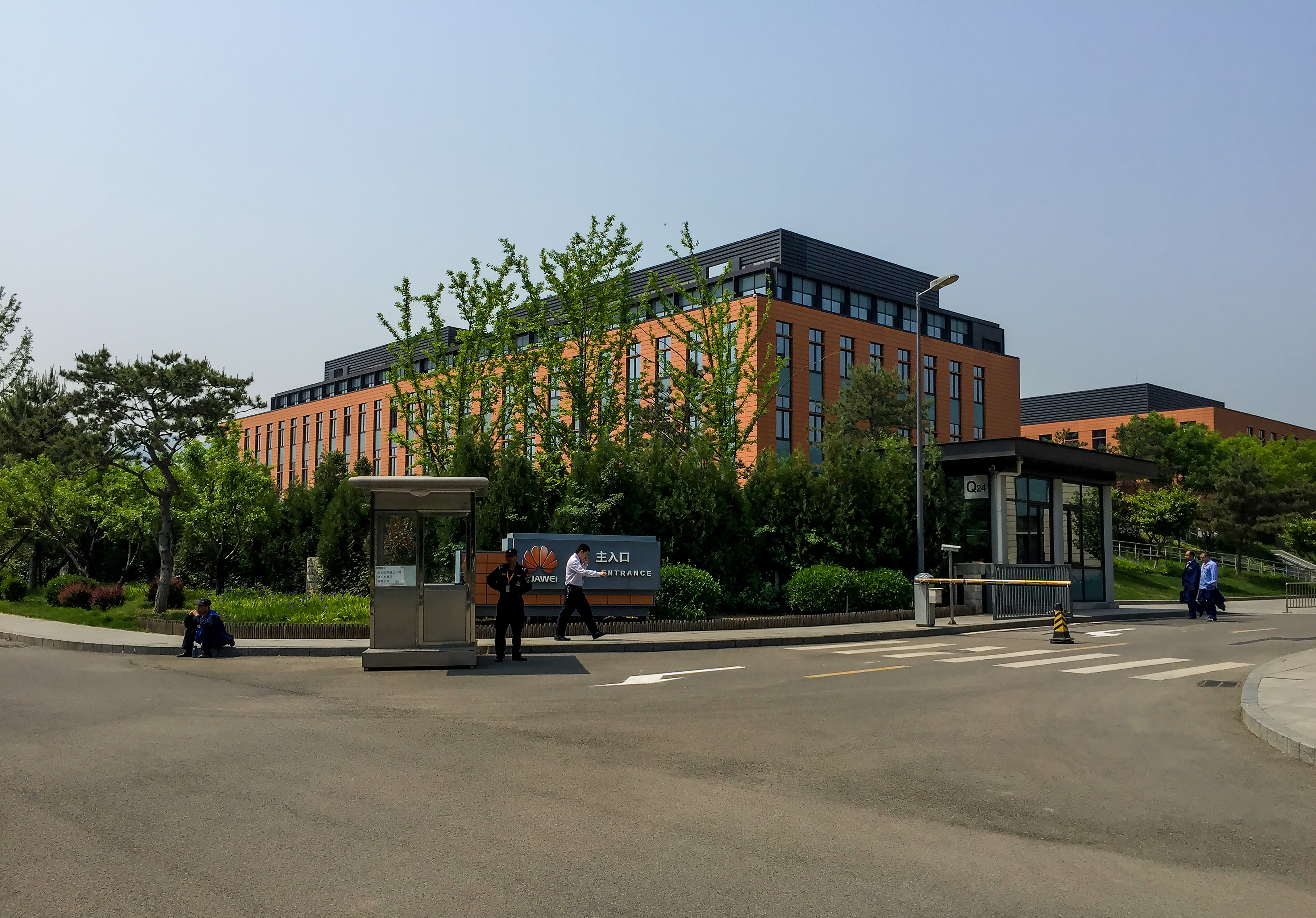 No Mobikes near Daoxianghulu station, so I have to walk into the Zhongguancun Environmental Protection Park (ZEPP) for bike connection! Maybe those bikes were already ridden from the station to ZEPP...